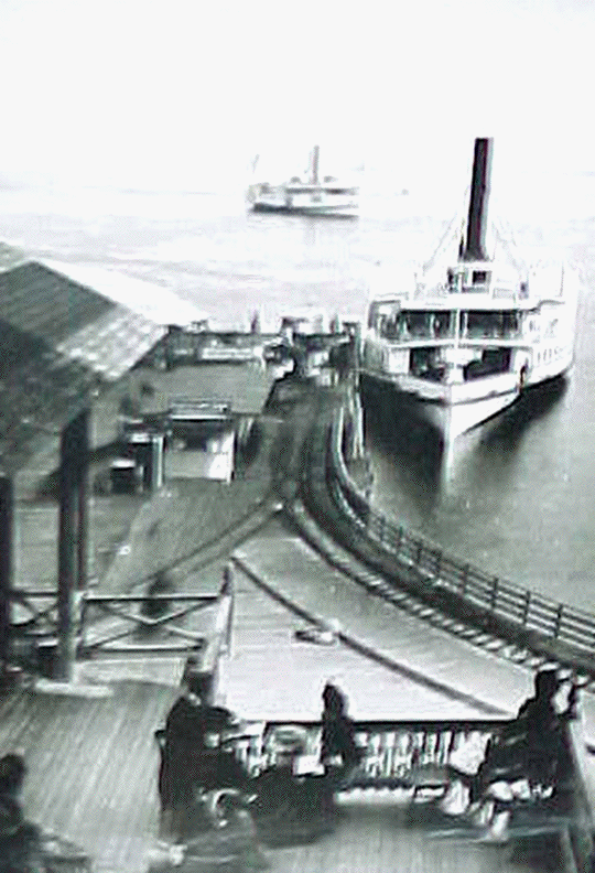 Turnaround for the Martha's Vineyard Railroad in Oak Bluffs.